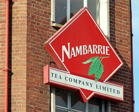 Farewell to Nambarrie, Belfast. See 502181. After more than 100 years, Nambarrie is closing this tea-packing warehouse at the corner of Victoria Street and Waring Street. It has another warehouse which is not affected. The brand will continue but not packed in Norn Iron.